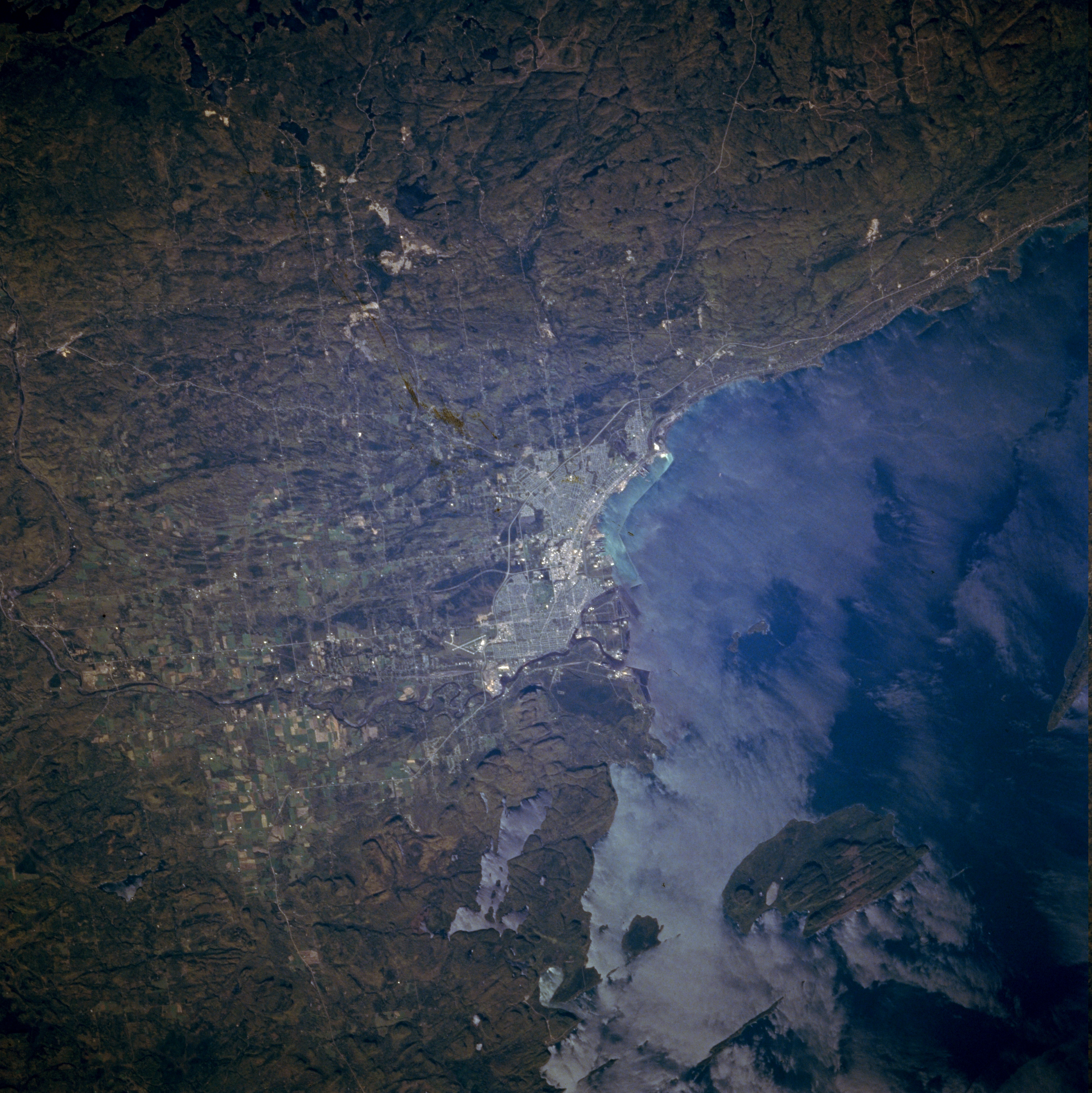 The city of Thunder Bay, Ontario, Canada and its vicinity from space, taken by the space shuttle mission STS-68 in October 1994. The top of the image is approximately north.